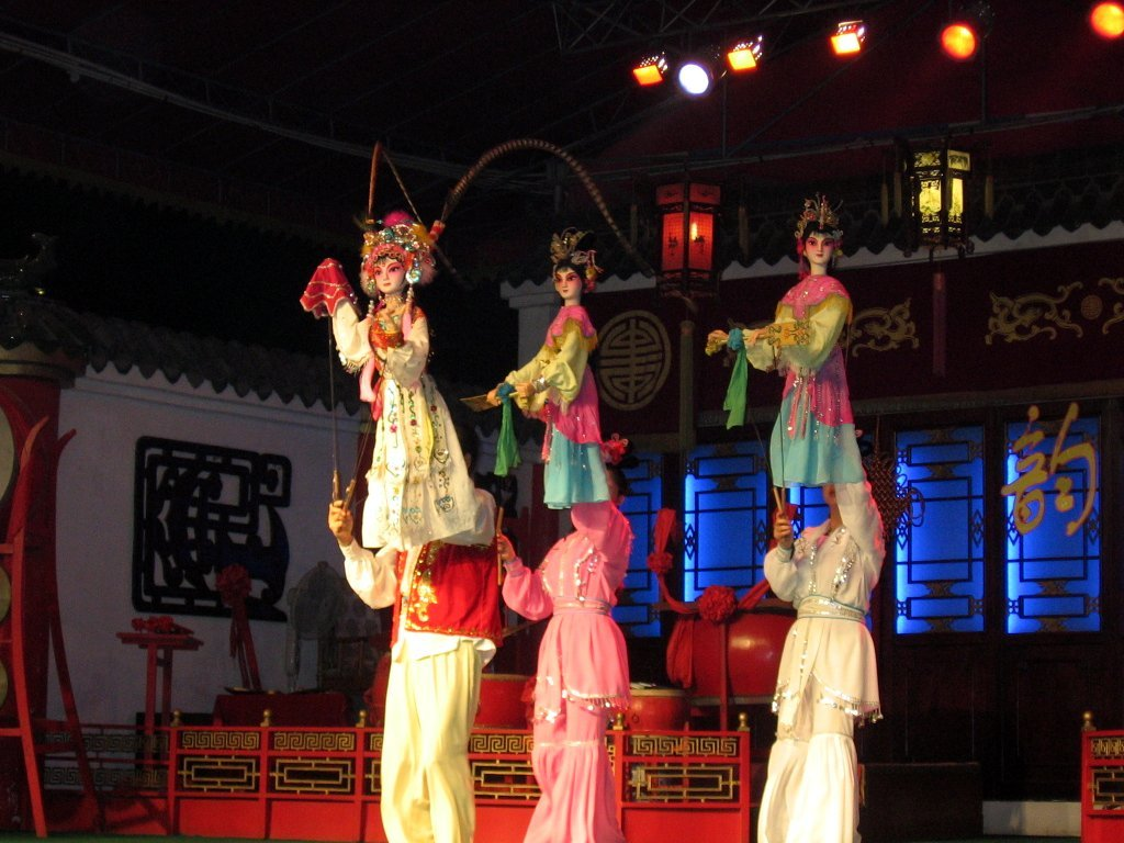 Sichuan opera in Chengdu. Puppets.